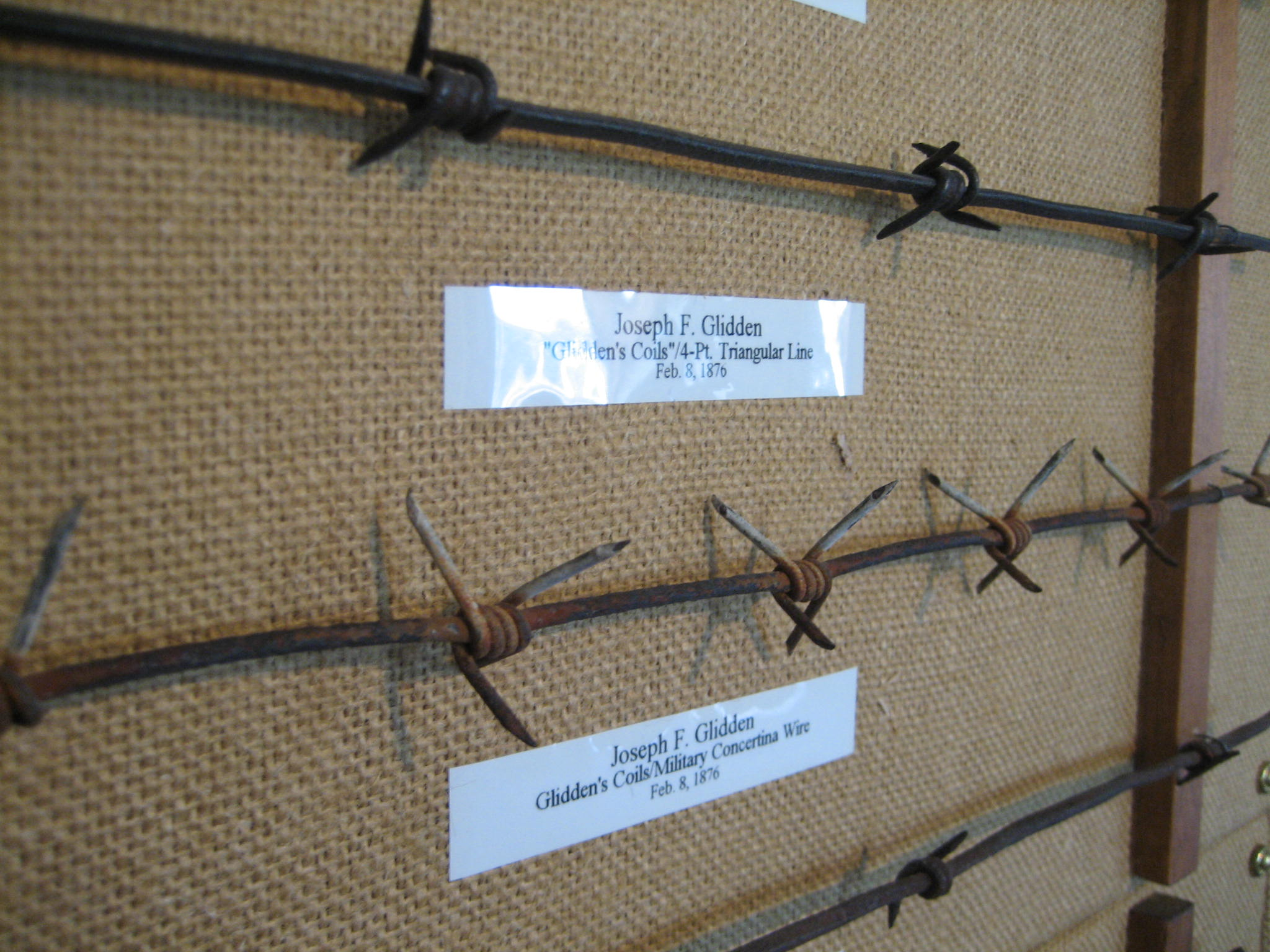 Two examples of Joseph Glidden's early barbed wire (1876). Top, Glidden's Coils/4-pt Triangualar line and bottom, Glidden's Coils/Military concertina wire. Barbed Wire History Museum at the Ellwood House Visitor Center in DeKalb, Illinois.